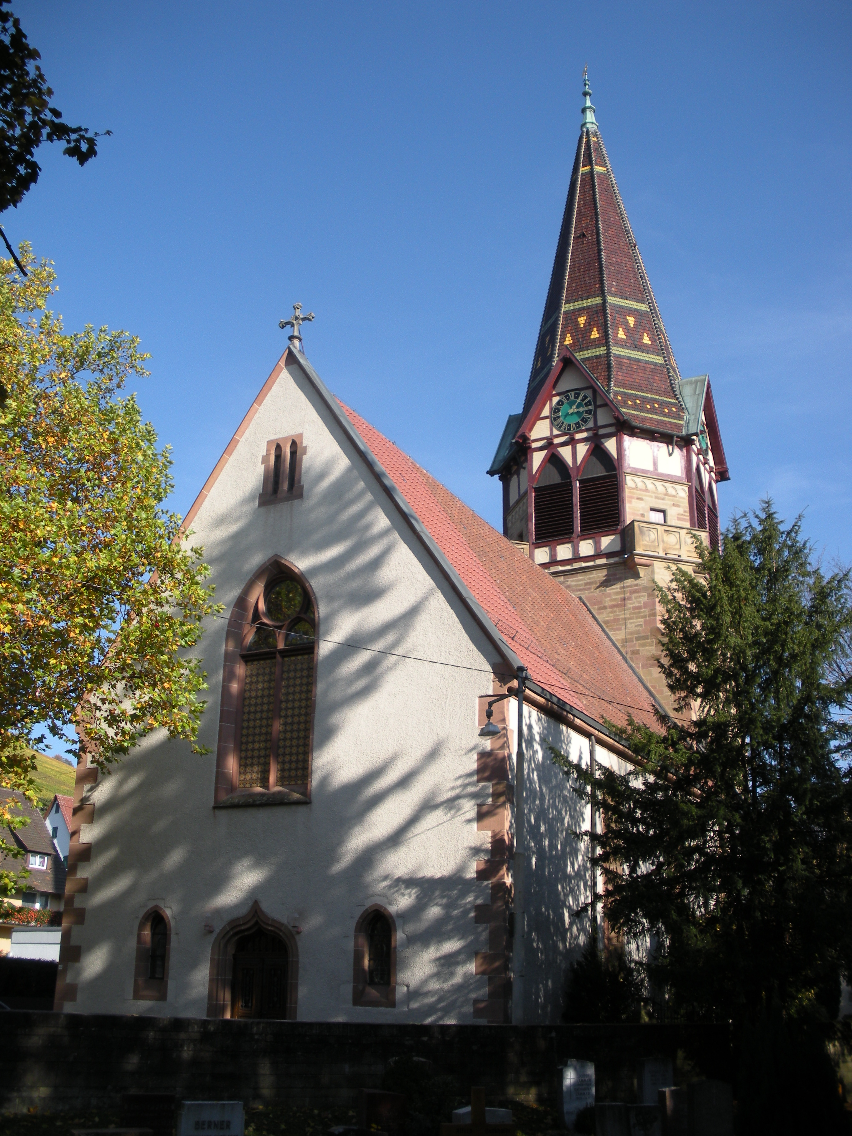 Protestant Church in Stuttgart-Uhlbach